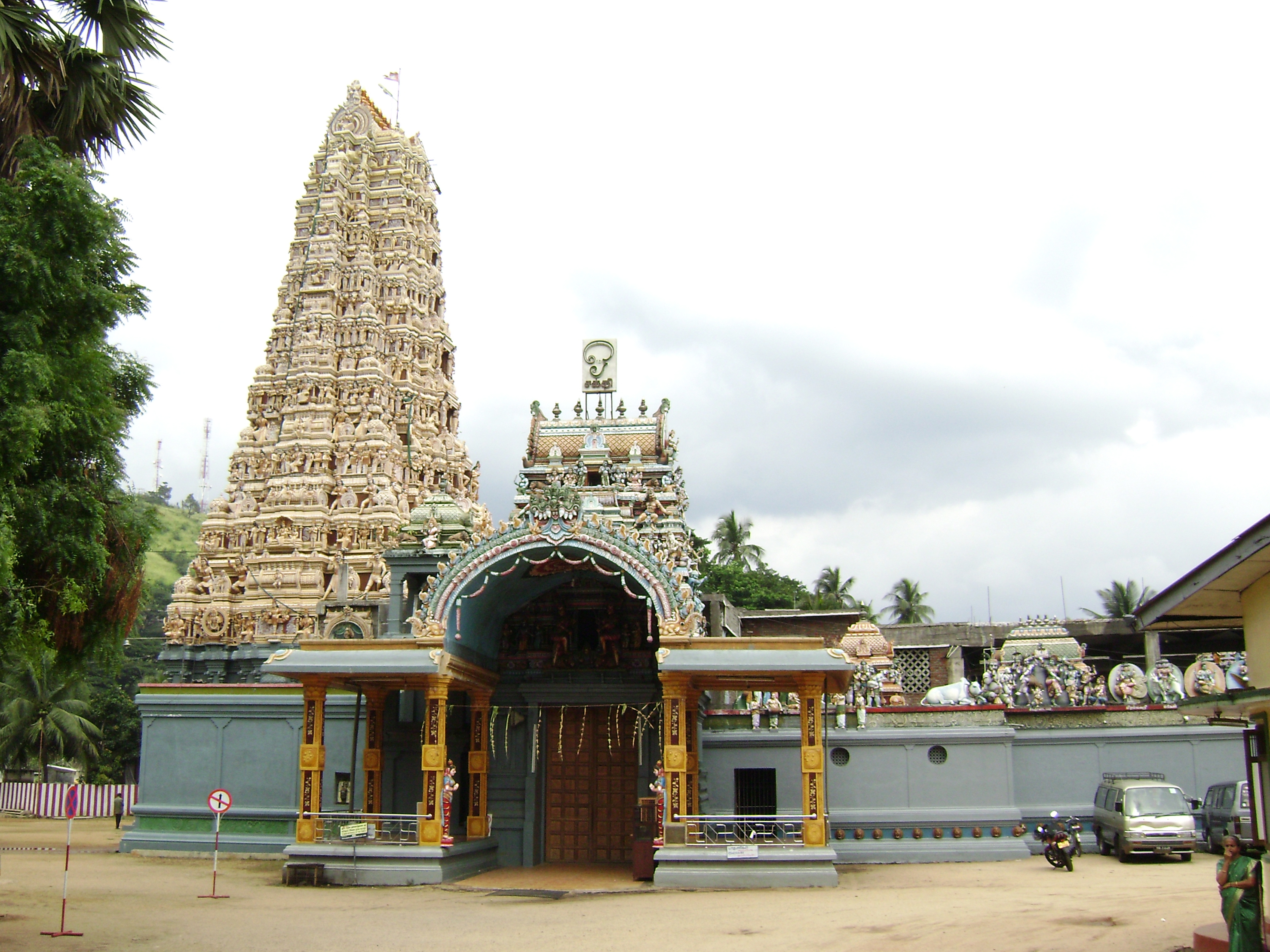 Sri Lanka, Matale Sri Muttumariyamman kovil Fornt view from the Road